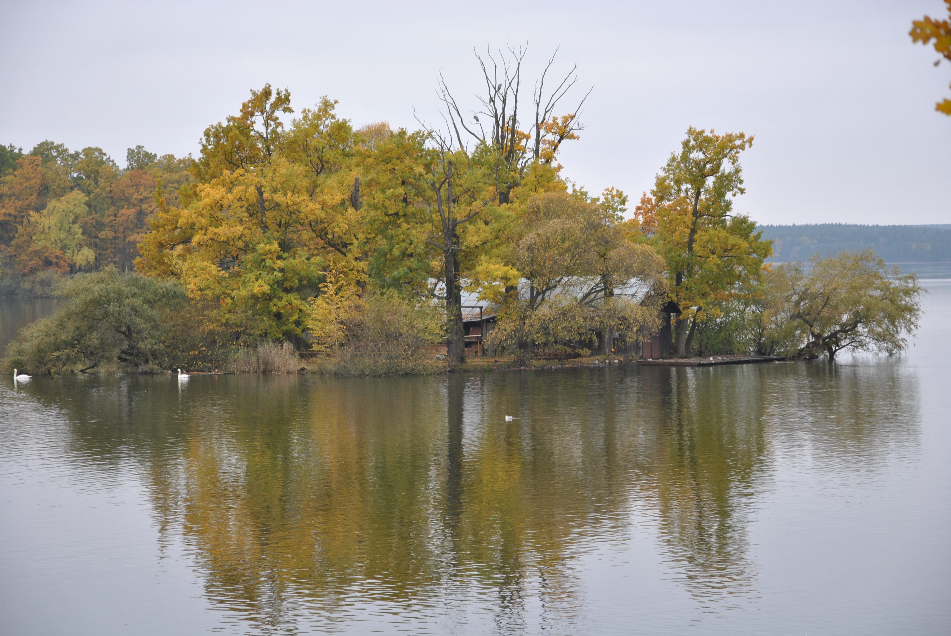 Labutě